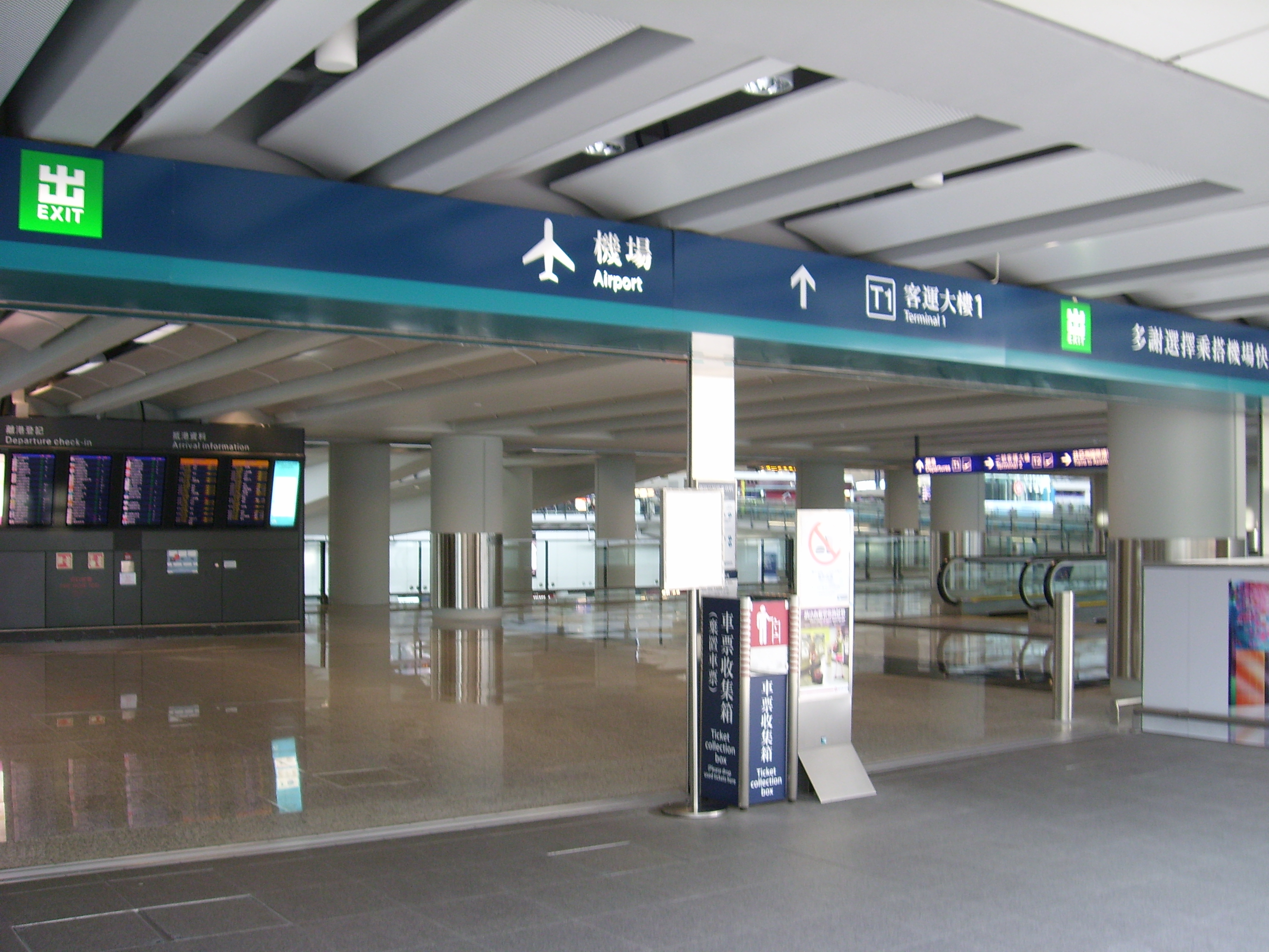 MTR Airport Station Exit to T1